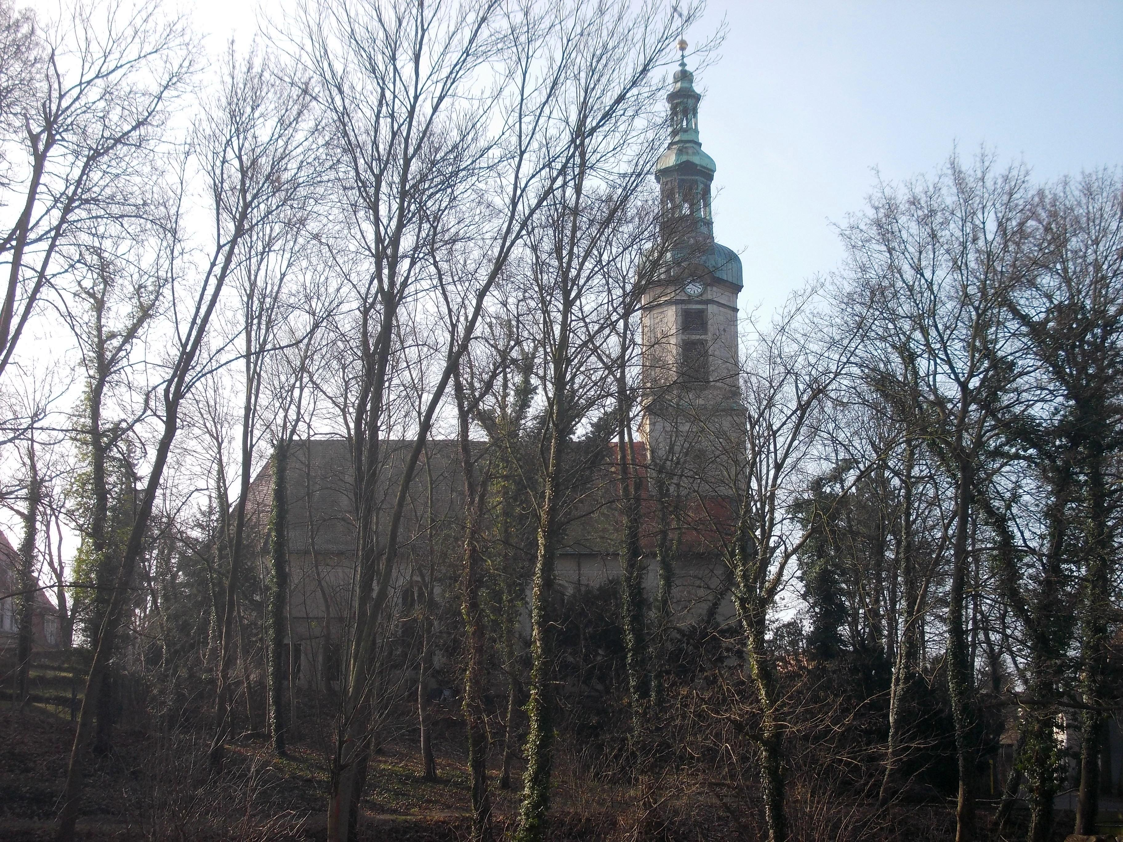 Martin Luther Church in Gautzsch (Markkleeberg, Leipzig district, Saxony)